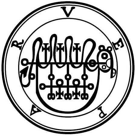 Vepar seal, THE BOOK OF THE GOETIA OF SOLOMON THE KING (1904)